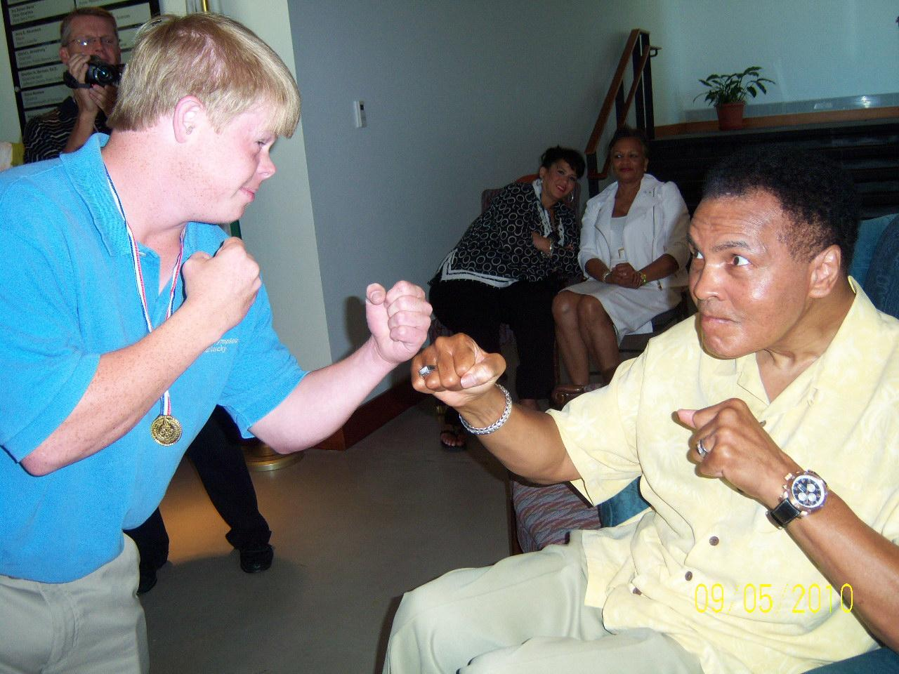 Special Olympics Athlete of the year, meets the Greatest of All time, and 1960 light heavyweight gold medalist Muhammad Ali.